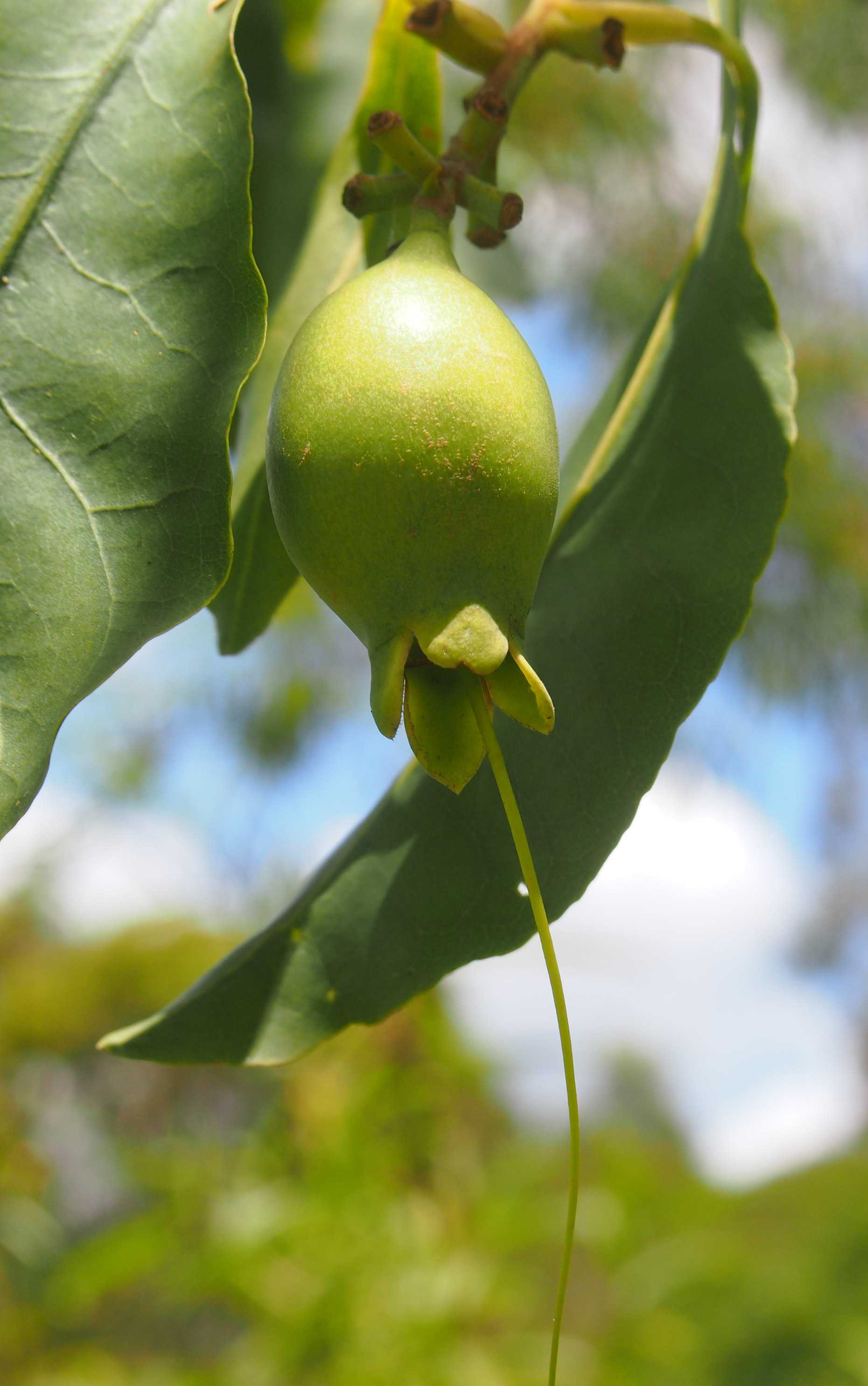 Planchonia careya fruit